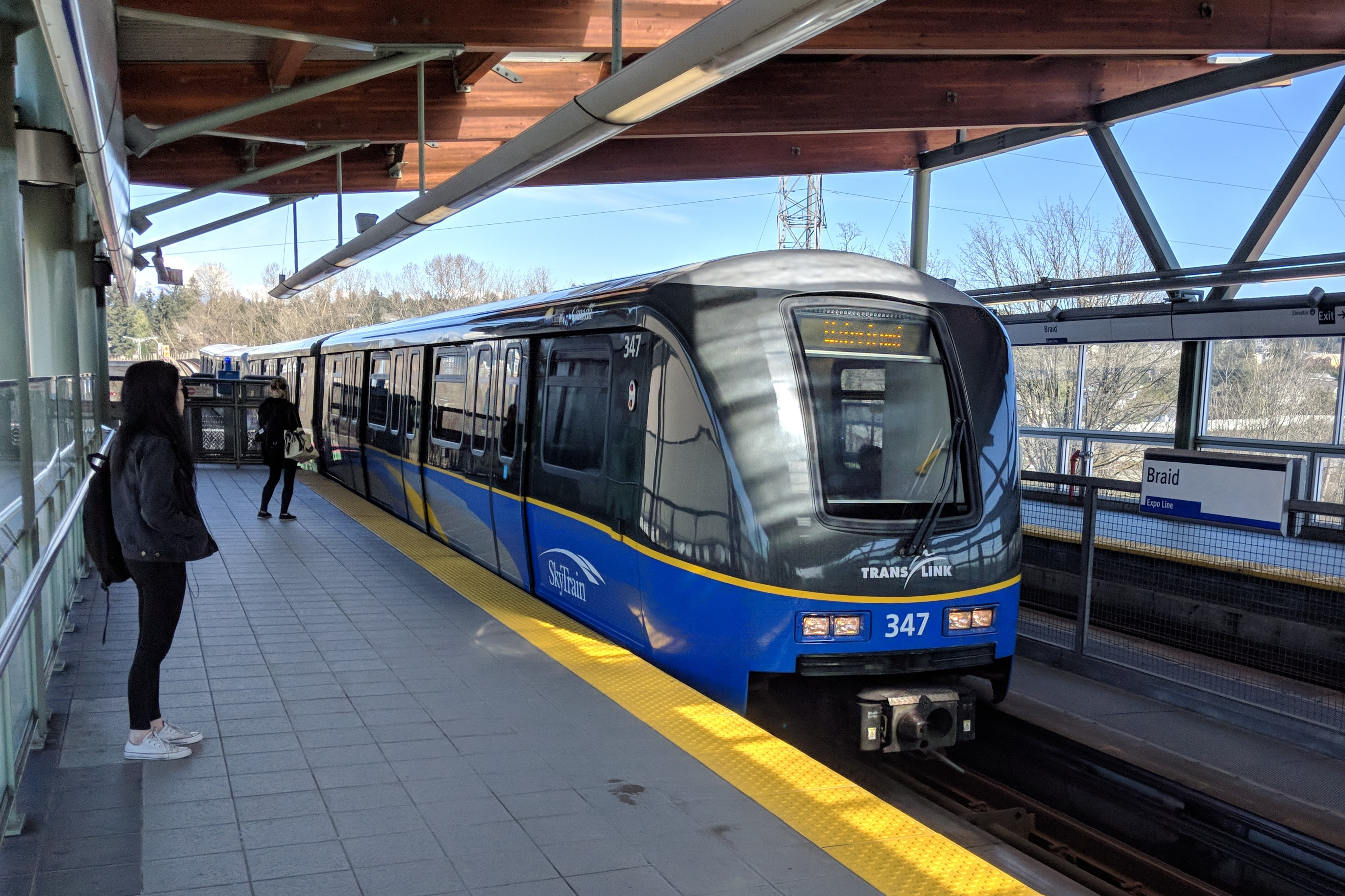 Platform level at Braid station. An inbound Expo Line train is seen entering the station.